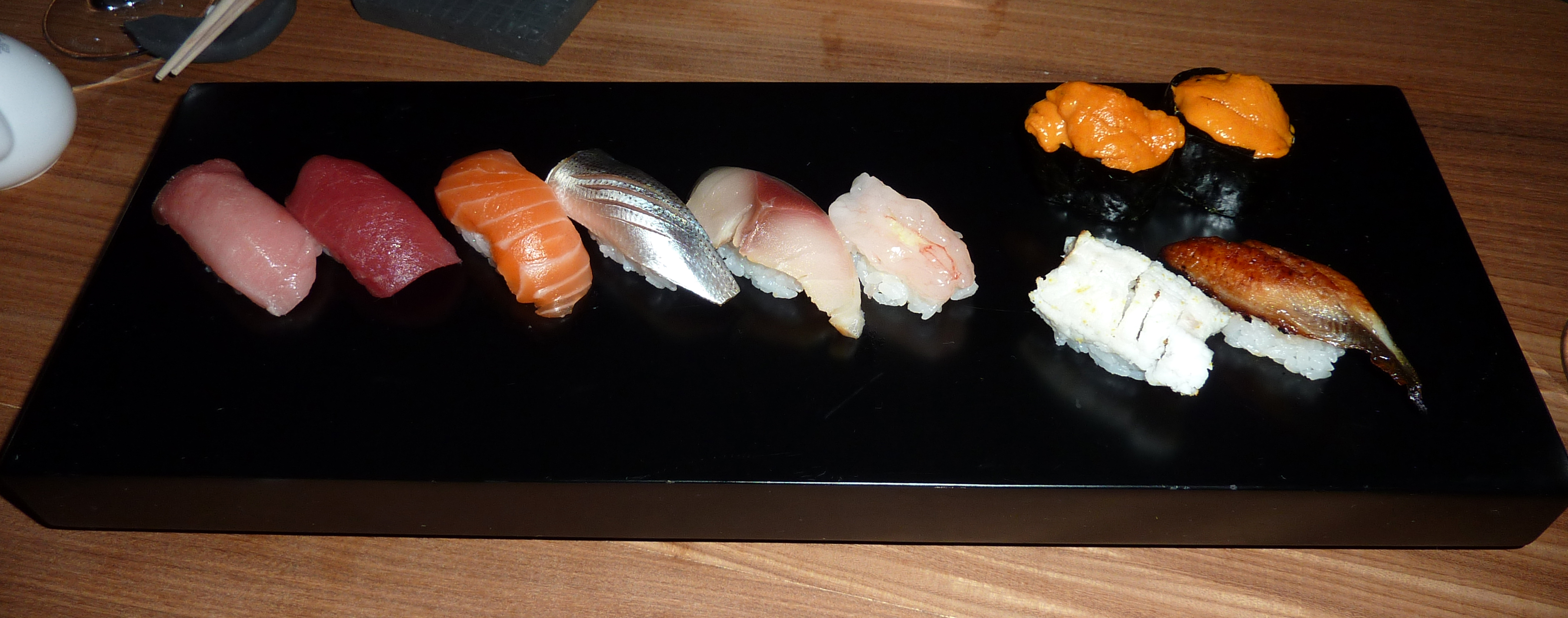 Sushi at Bar Masa, in the Aria Resort & Casino, Las Vegas, Nevada.